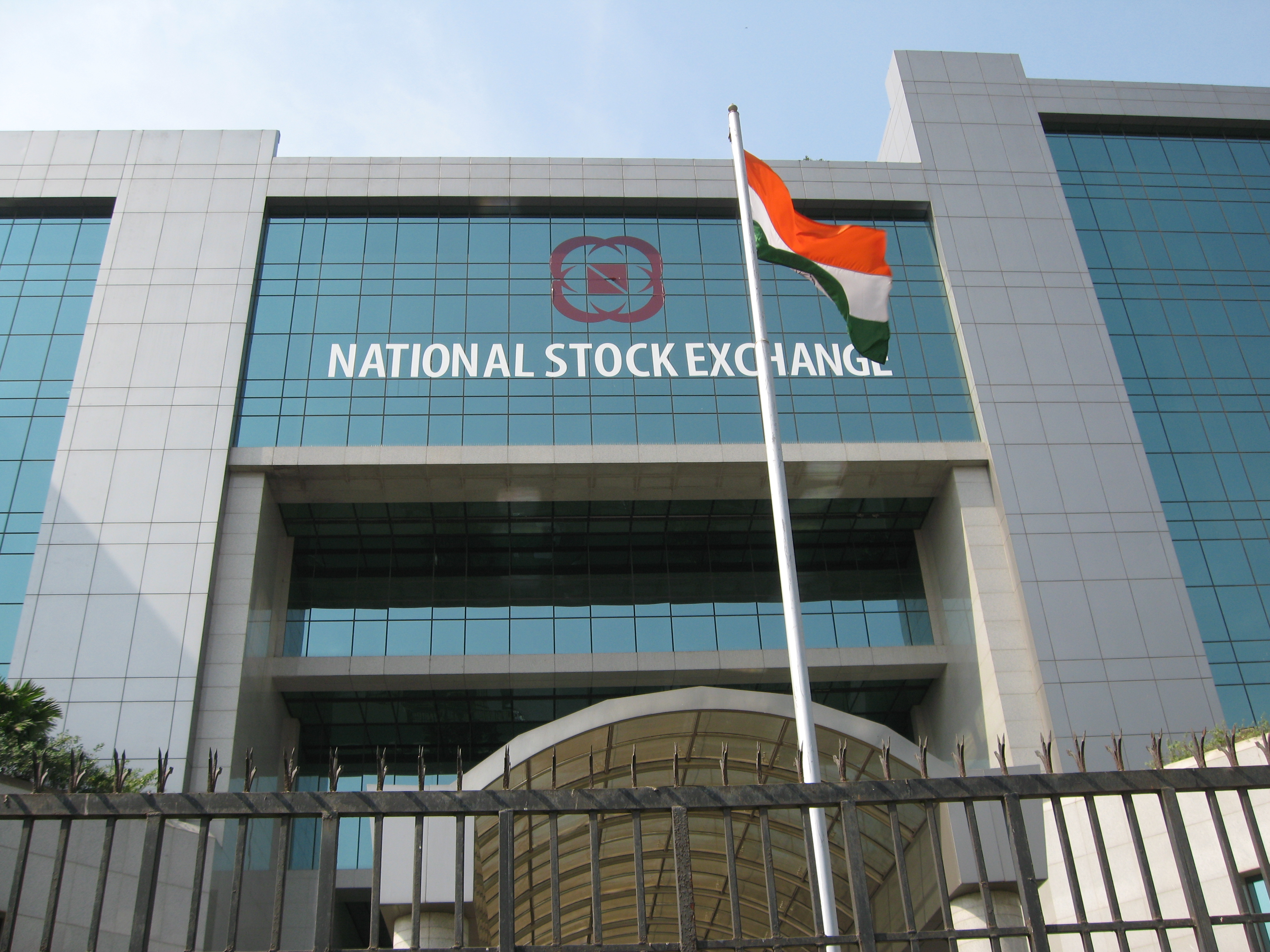 National Stock Exchange, Mumbai, India.